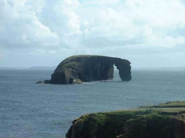 Dore Holm, Shetland. Famous for its Arches, some of which are hidden from this angle, the island now features in a children's story book - as a fossilised dinosaur.